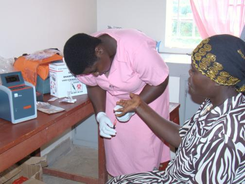 In April 2012, USAID provided equipment and training to the Kyabugimbi Health Center in Uganda. The Pima point-of-care CD4 machine is a tool for measuring patients’ CD4 counts, which is an important indicator of the progression of HIV and necessary for determining an appropriate course of treatment. Previously, it took one month to receive the results of the test. Clients can now receive their results within 20 minutes. USAID is supporting the Ministry of Health to distribute 200 such machines to various facilities in southwestern Uganda that provide anti-retroviral treatment (ART) to persons living with HIV/AIDS. The machines aim to increase access to CD4 testing services and promote early initiation of ART. Unlike conventional CD4 analyzers, this point-of-care CD4 analyzer does not require highly trained technicians, complex back-up equipment, or constant electricity supply. Instead, it is an easy-to-operate machine which enables CD4 testing to be performed efficiently and effectively in a wide range of rural health facilities. (USAID/Renuka Naj)